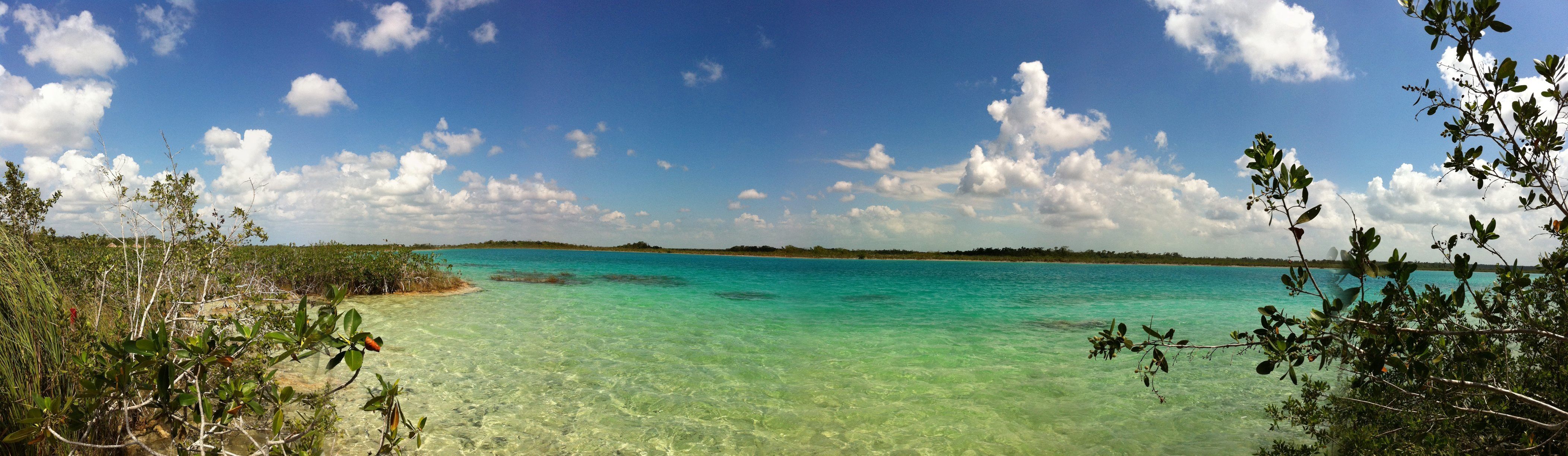 Bacalar Lagoon, in Xula, Quintana Roo on the Yucatan Peninsula of Mexico